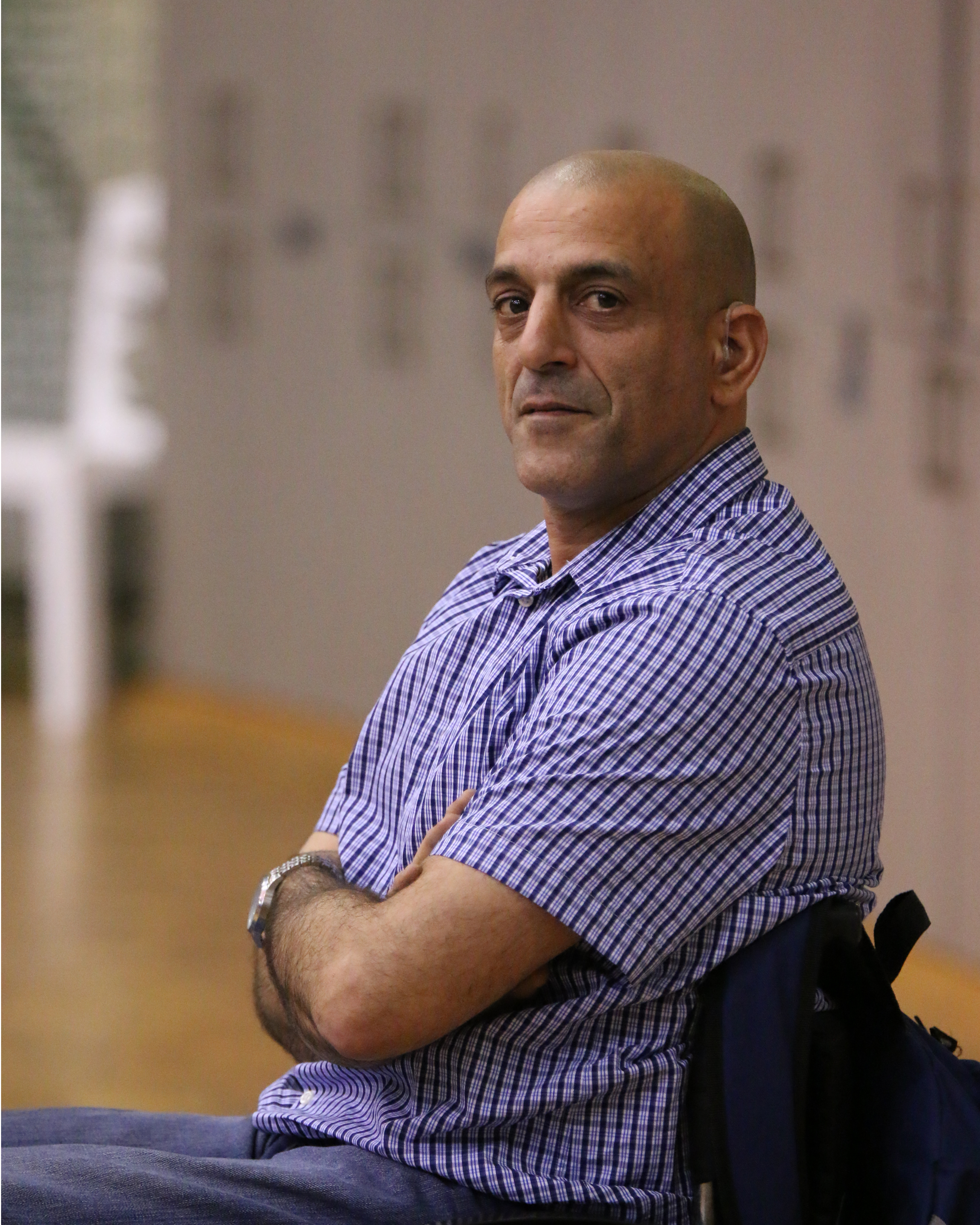 Avi Lerman, 2016